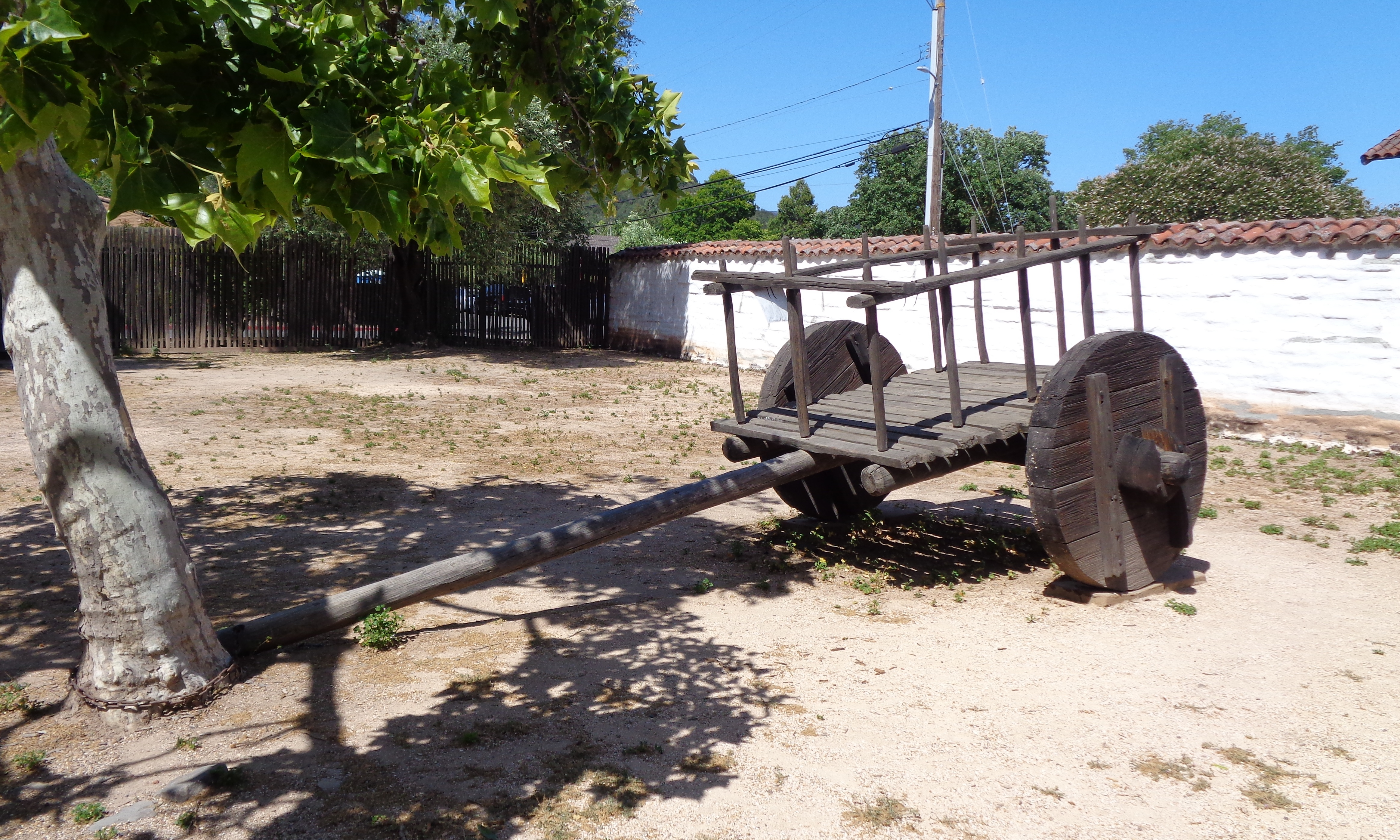 A bullock cart of 1836 displayed in the backyard.